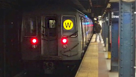 Astoria-bound MTA NYC Subway W train of Westinghouse/Amrail/ANF R68 cars leaving 8th St/NYU.